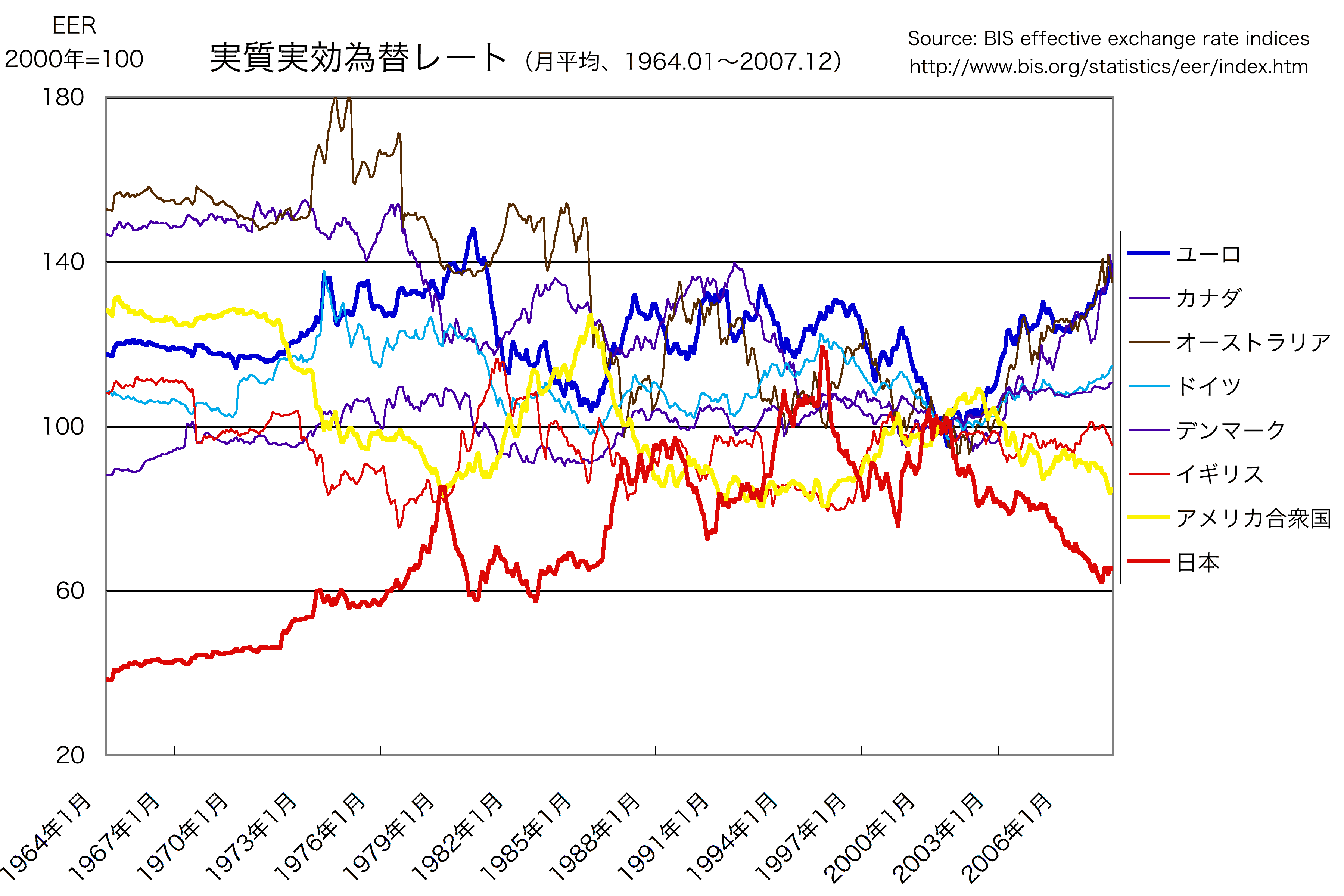 Monthly, Jan 1964 - Dec 2007, 2000 = 100